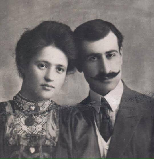 Daniel Varuzhan with his wife Araksi